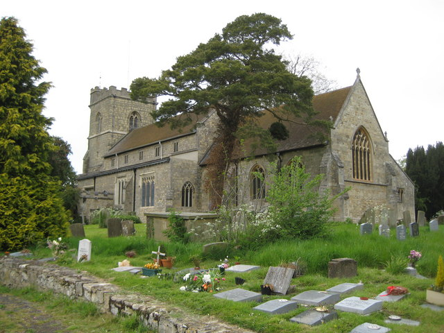 Parish church of the Holy Cross and St Mary, Quainton, Buckinghamshire, seen from the southeast